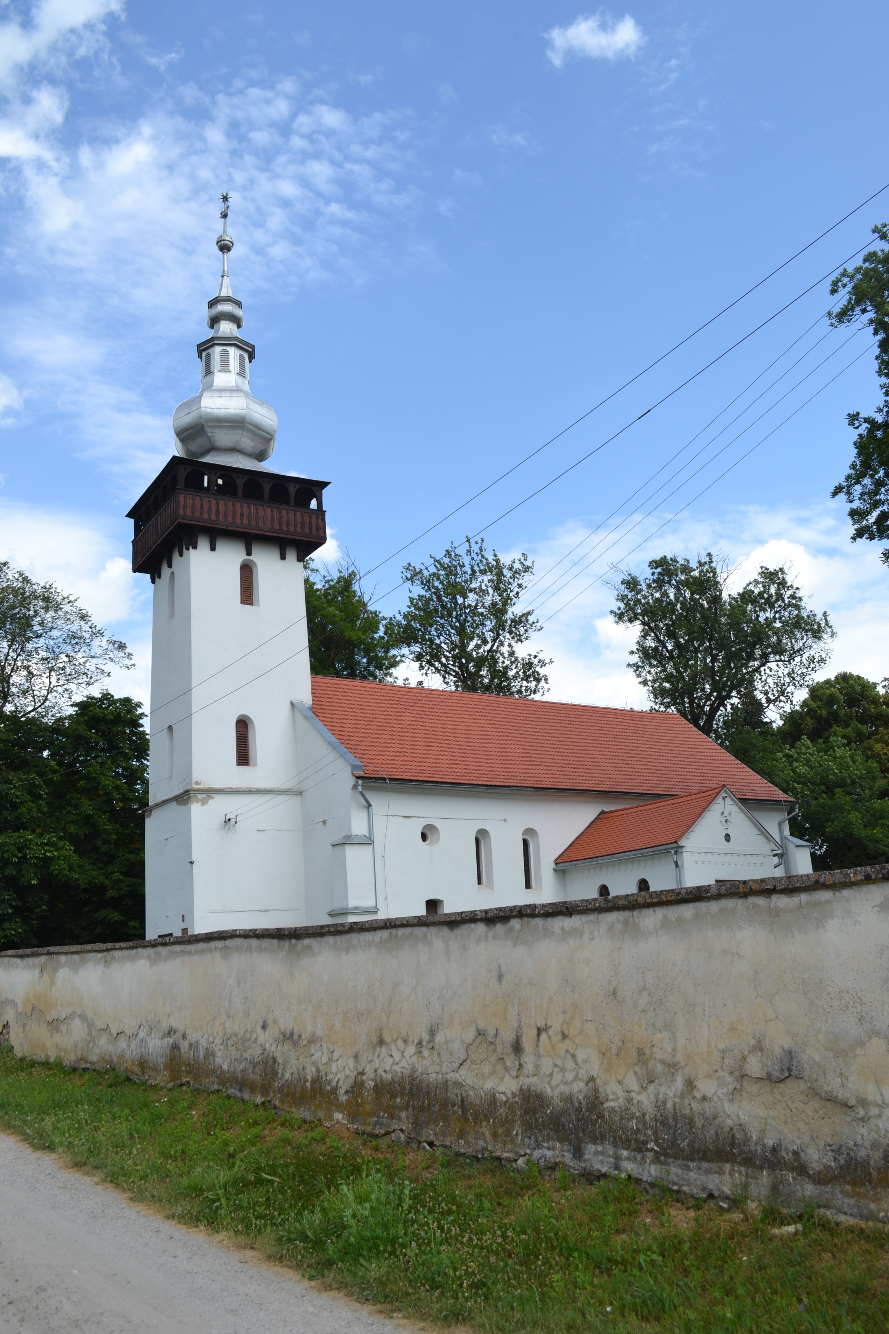 The Reformed Church in Širkovce